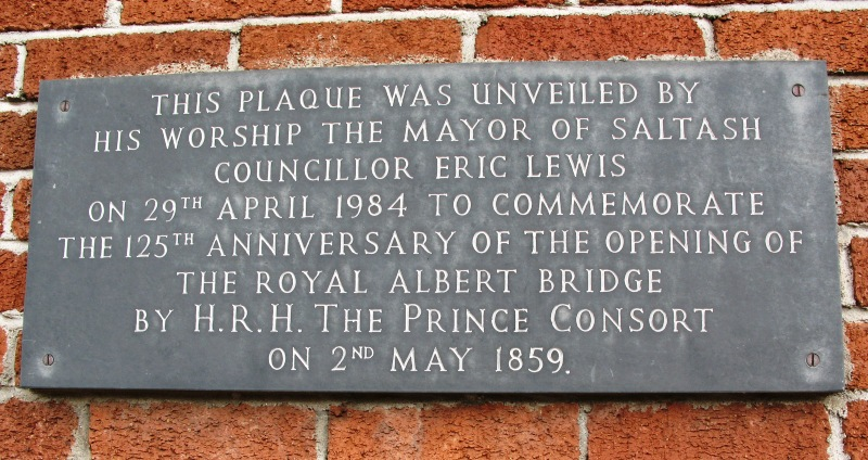 The plaque at Saltash railway station, Cornwall, United Kingdom to commemorate the 125th anniversary of its opening on 2 May 1859 by His Royal Highness, Prince Albert. It is situated on the signal interlocking on the down platform.